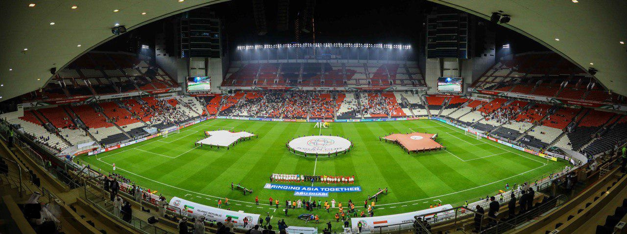 Iran & Yemen Group D match, 2019 AFC Asian Cup